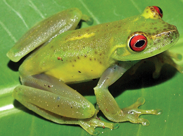 Anurans from the RPPN Serra Bonita, Bahia State, Northeastern Brazil. a Brachycephalus pulex b Ischnocnema verrucosa c Ischnocnema sp. 1 (gr. parva) d Rhinella crucifer e R. granulosa f Vitreorana eurygnatha g V. uranoscopa h Haddadus binotatus i “Eleutherodactylus” bilineatus j Pristimantis sp. 1 l P. vinhai m Adelophryne sp. n Gastrotheca pulchra o Aplastodiscus ibirapitanga; and p A. cf. weygoldti.